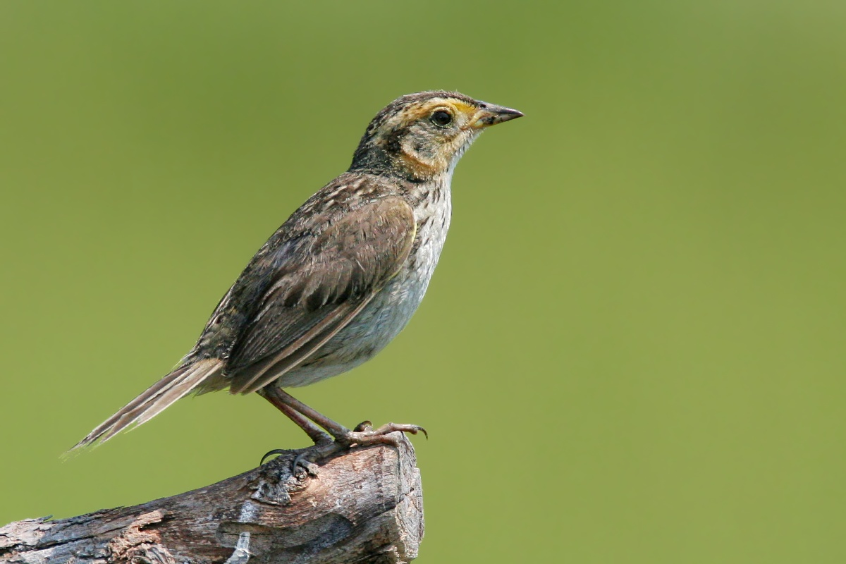 Saltmarsh Sharp-Tailed Sparrow / Ammodramus caudacutus